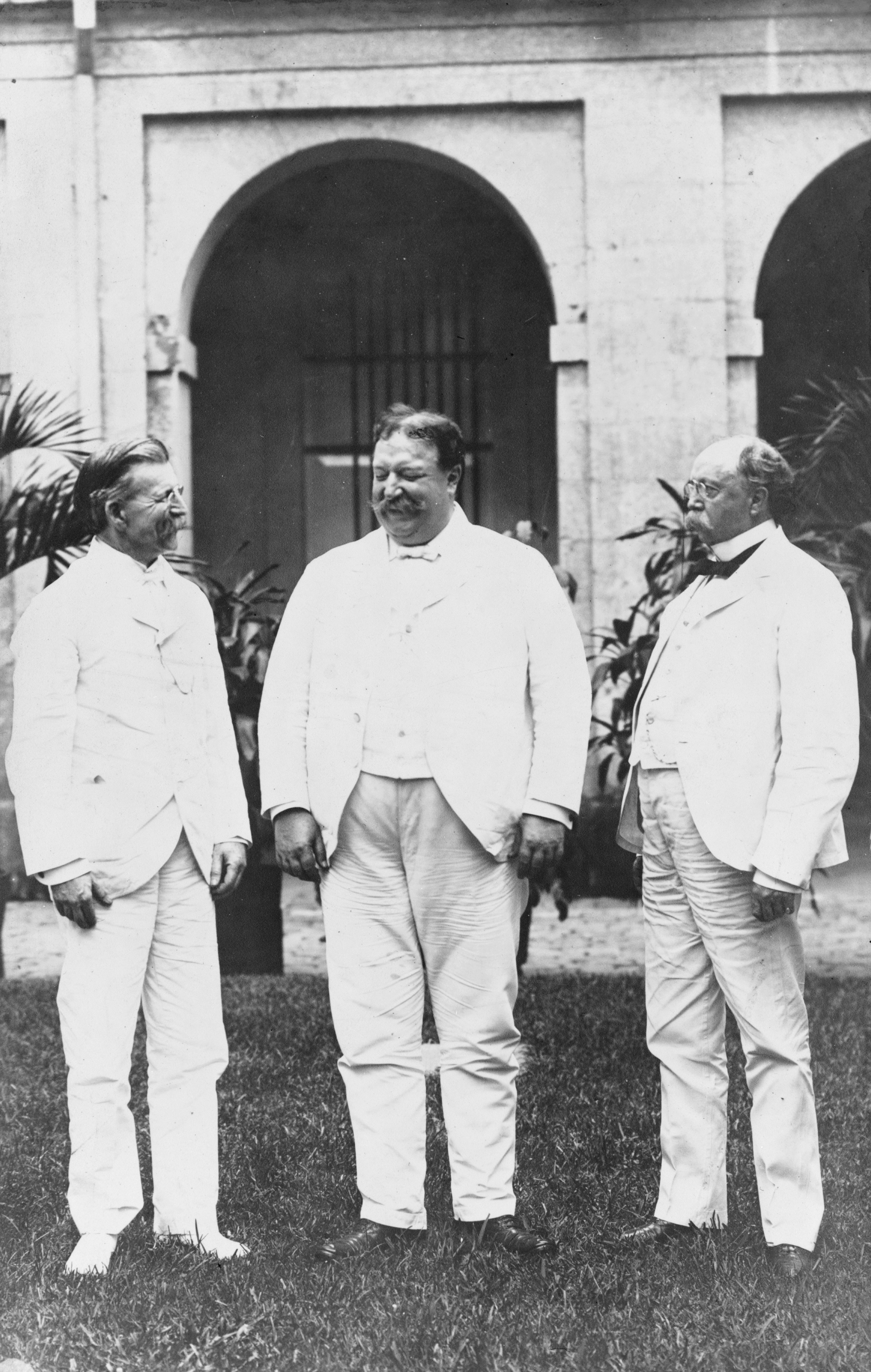 U.S. Philippine commissioners General Luke E. Wright, William H. Taft, and Judge Henry C. Ide, standing on lawn.